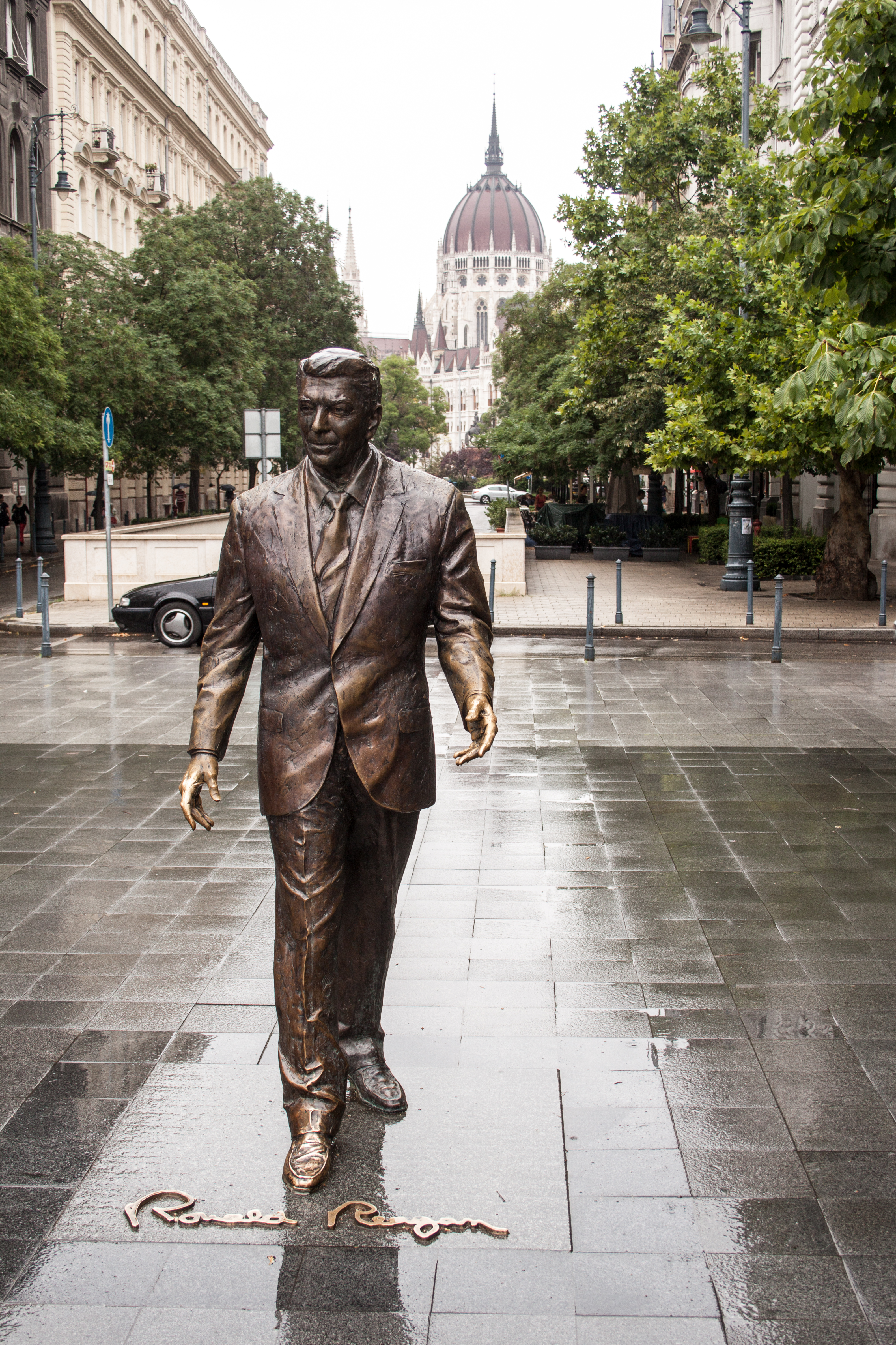 Statue of Ronald Reagan, Szabadság square, Budapest